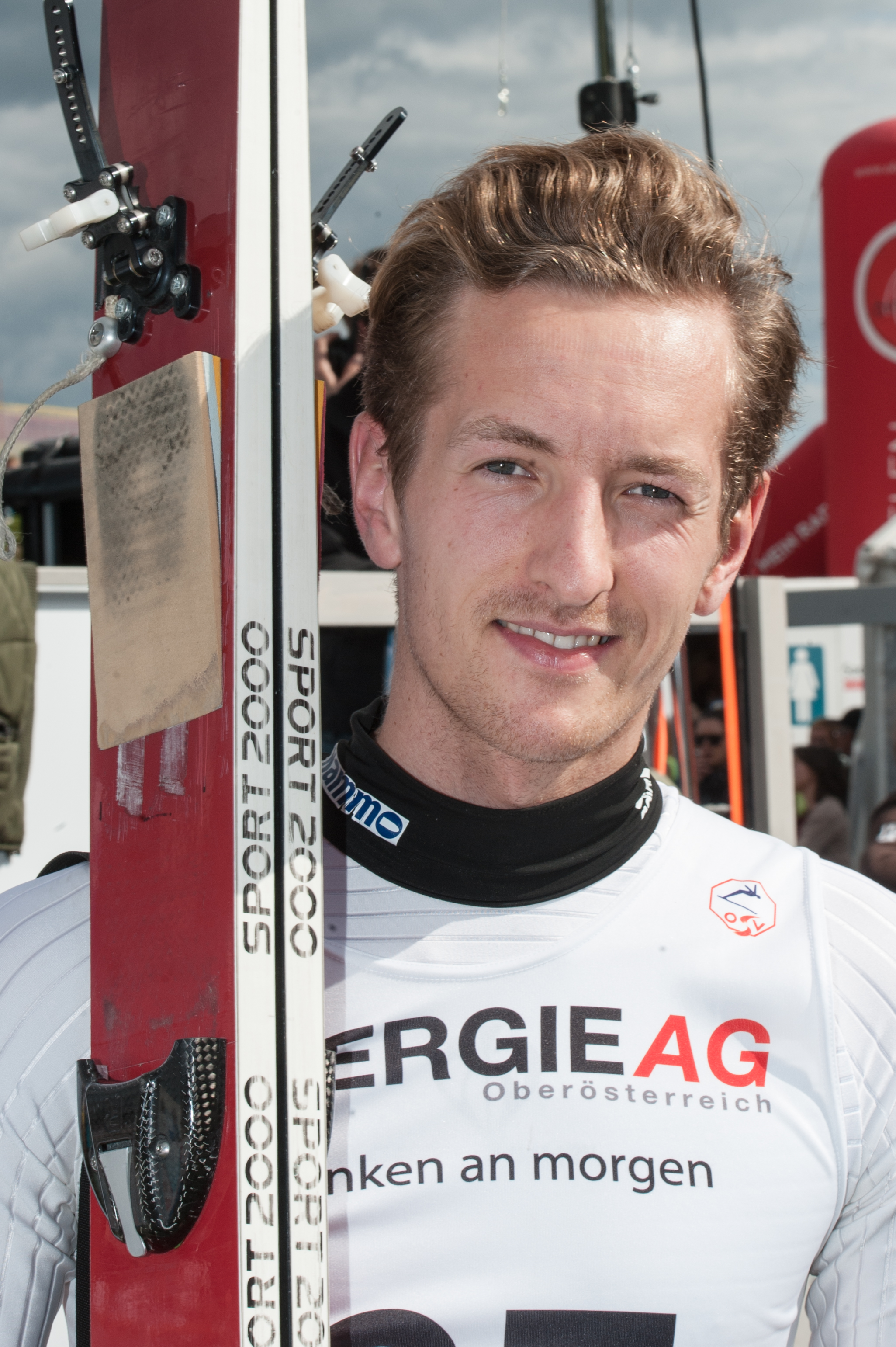 Fis Ski Jumping Summer Grand Prix in Hinzenbach, Upper Austria, 2015-09-27: Joachim Hauer